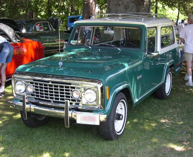 1972 Jeep C104 Commando Source: Photographed at the Bay State Antique Automobile Club's July 10, 2005 show at the Endicott Estate in Dedham, MA by User:Sfoskett